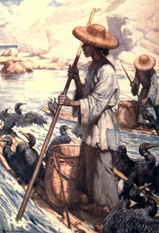 Fishing with Cormorants